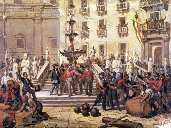 Credit: Expedition of the Thousand, Giuseppe Garibaldi in Pretoria Square in Palermo, 1860 / De Agostini Picture Library / V. Pirozzi / The Bridgeman Art Library DGA 519952 Image number: Expedition of the Thousand, Giuseppe Garibaldi in Pretoria Square in Palermo, 1860 Title: De Agostini Picture Library / V. Pirozzi Credit: (19th) Date: Horizontal Orientation: Add to lightbox Download preview image Buy a fine art print Image availability: Image is only available to Account Customers Image size(s): High-res JPEG, 4.78 MB, 3935x2896 px Restrictions: ITALIAN RIGHTS NOT AVAILABLE Keywords